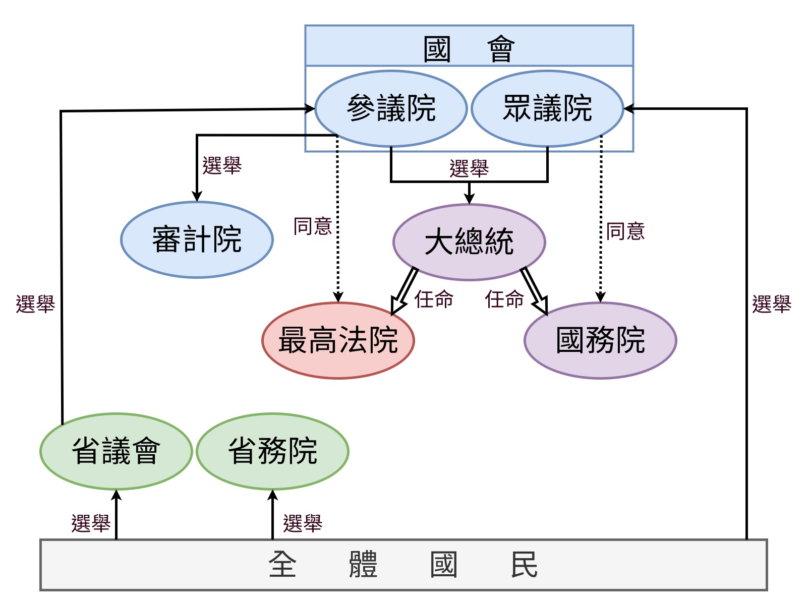 1923 Chinese constitution diagram